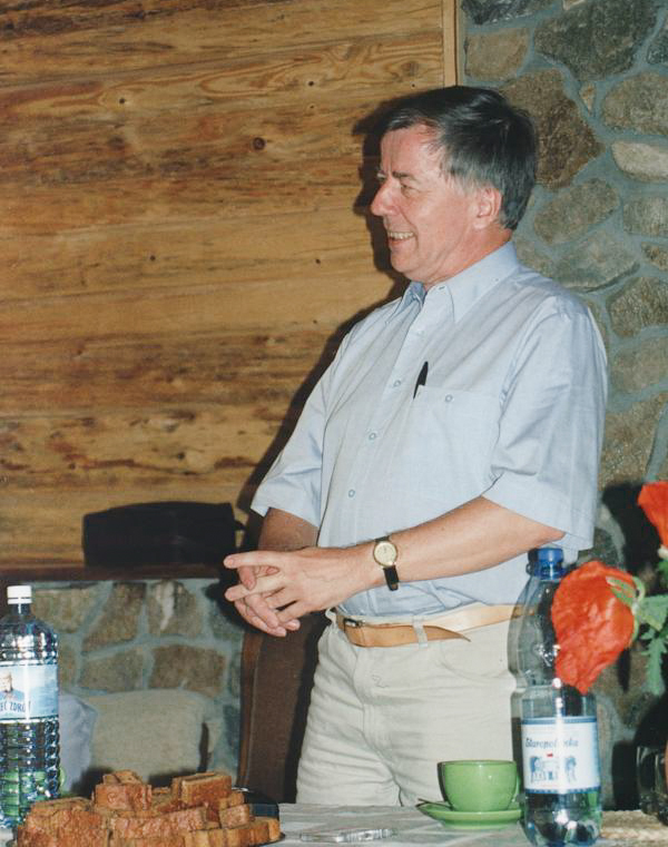 Professor Jan Miodek - exposition in Bielice.